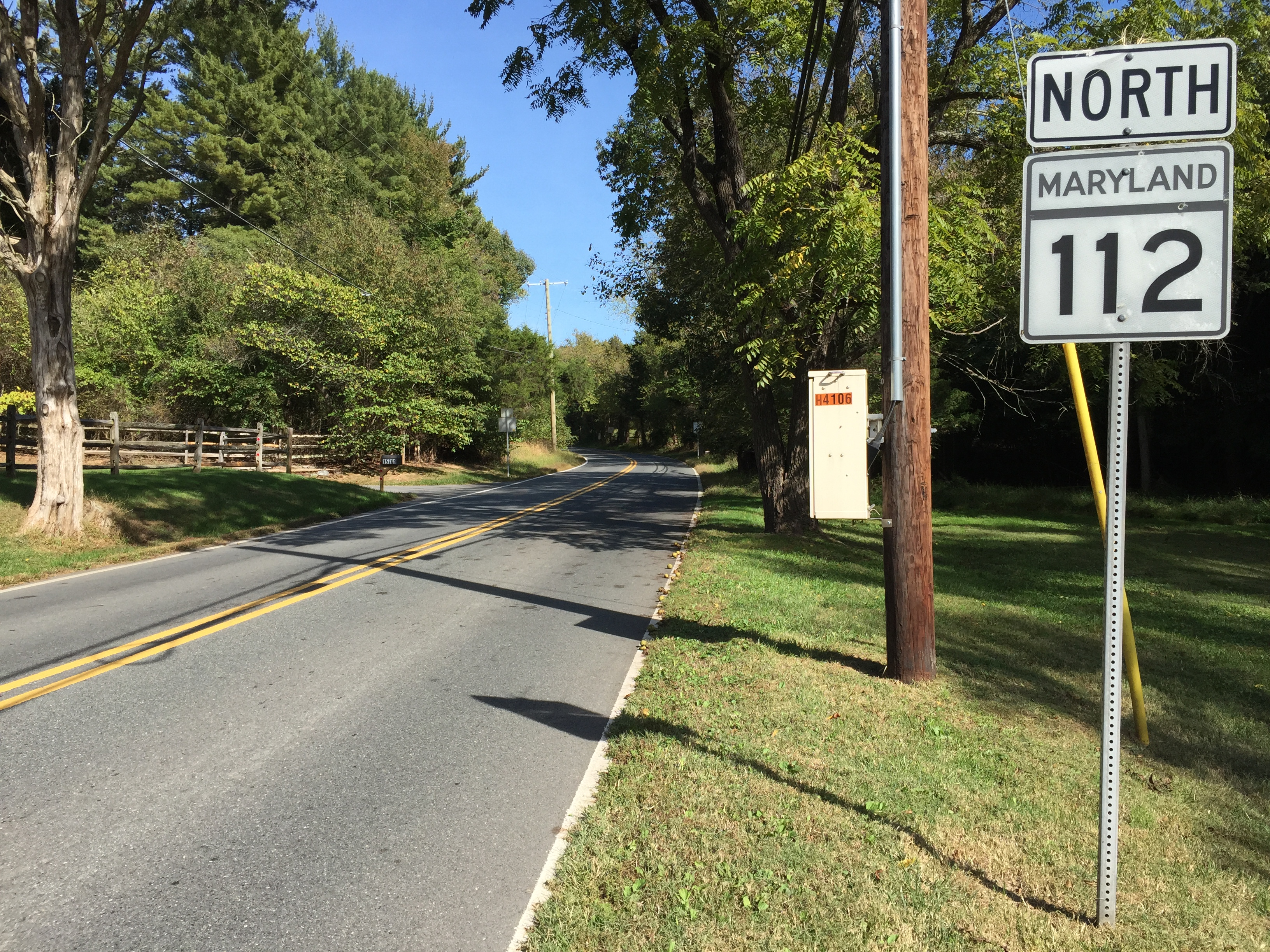 View north along Maryland State Route 112 (Seneca Road) at Maryland State Route 190 (River Road) in Darnestown, Montgomery County, Maryland